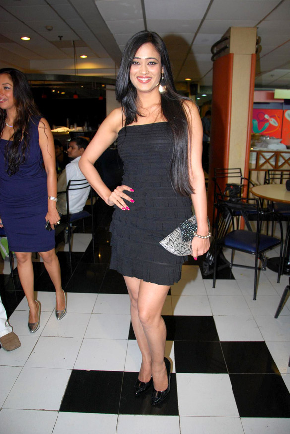 Shweta tiwary 100 episode celebration